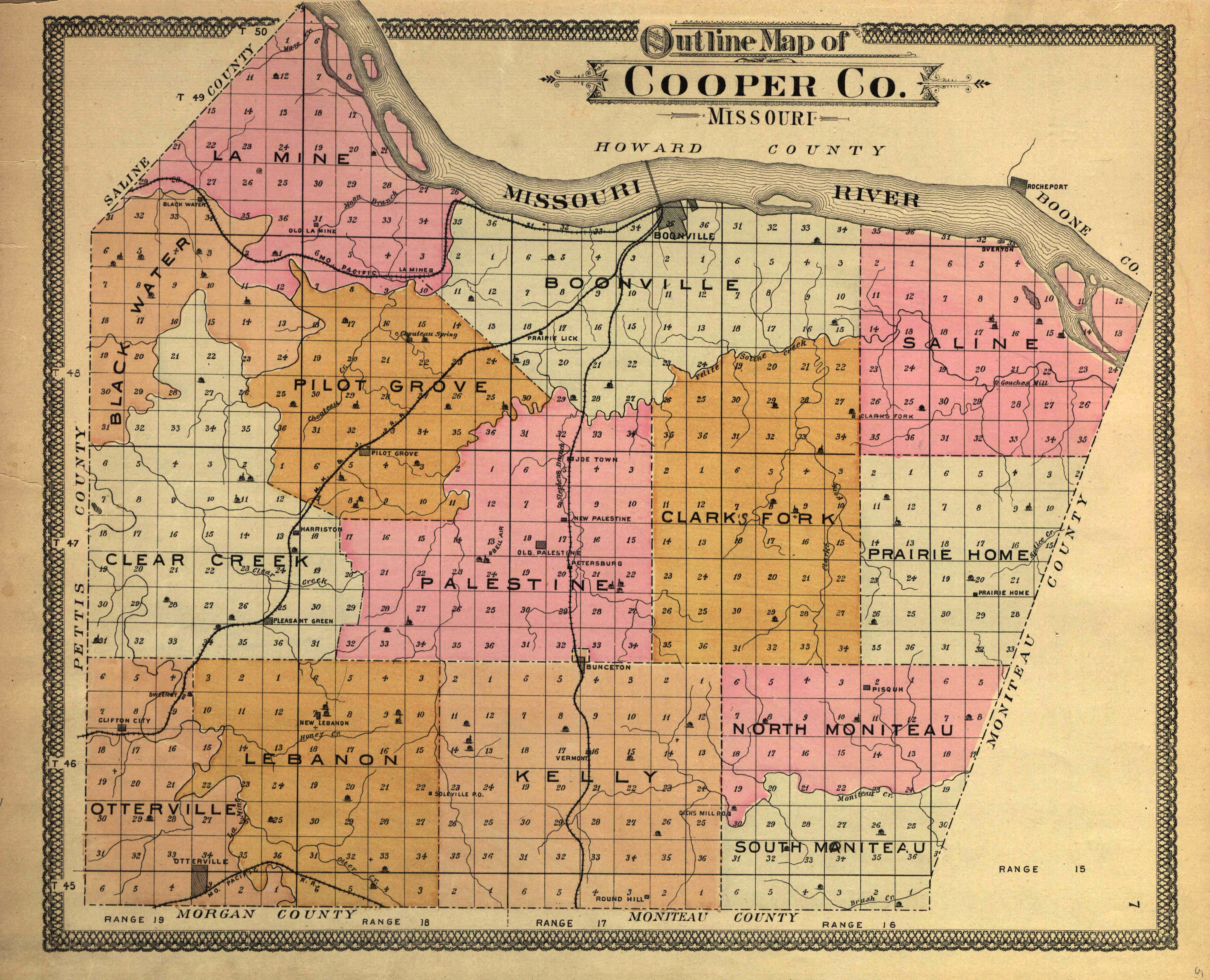 A map showing the 1897 townships (civil) that existed in Cooper County, Missouri from the "Illustrated Historical Atlas of Cooper County, Missour" page 7 (State Historical Society of Missouri